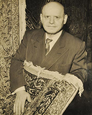 Portrait of Aris Alexanian holding an oriental rug.